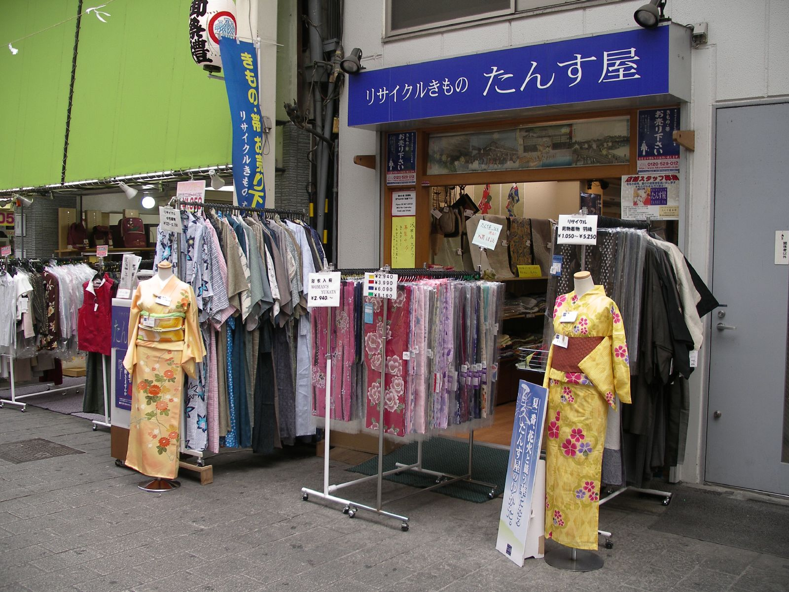 OOps. Typo in the file name, too sleepy, haha oops! KiMOno second hand shop ("recycle shop") in Japan